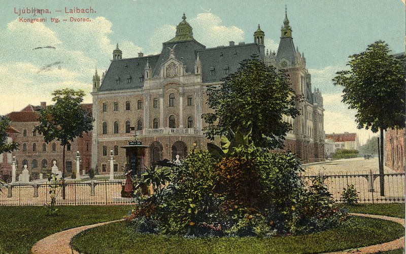 Postcard of Ljubljana, Congress Square